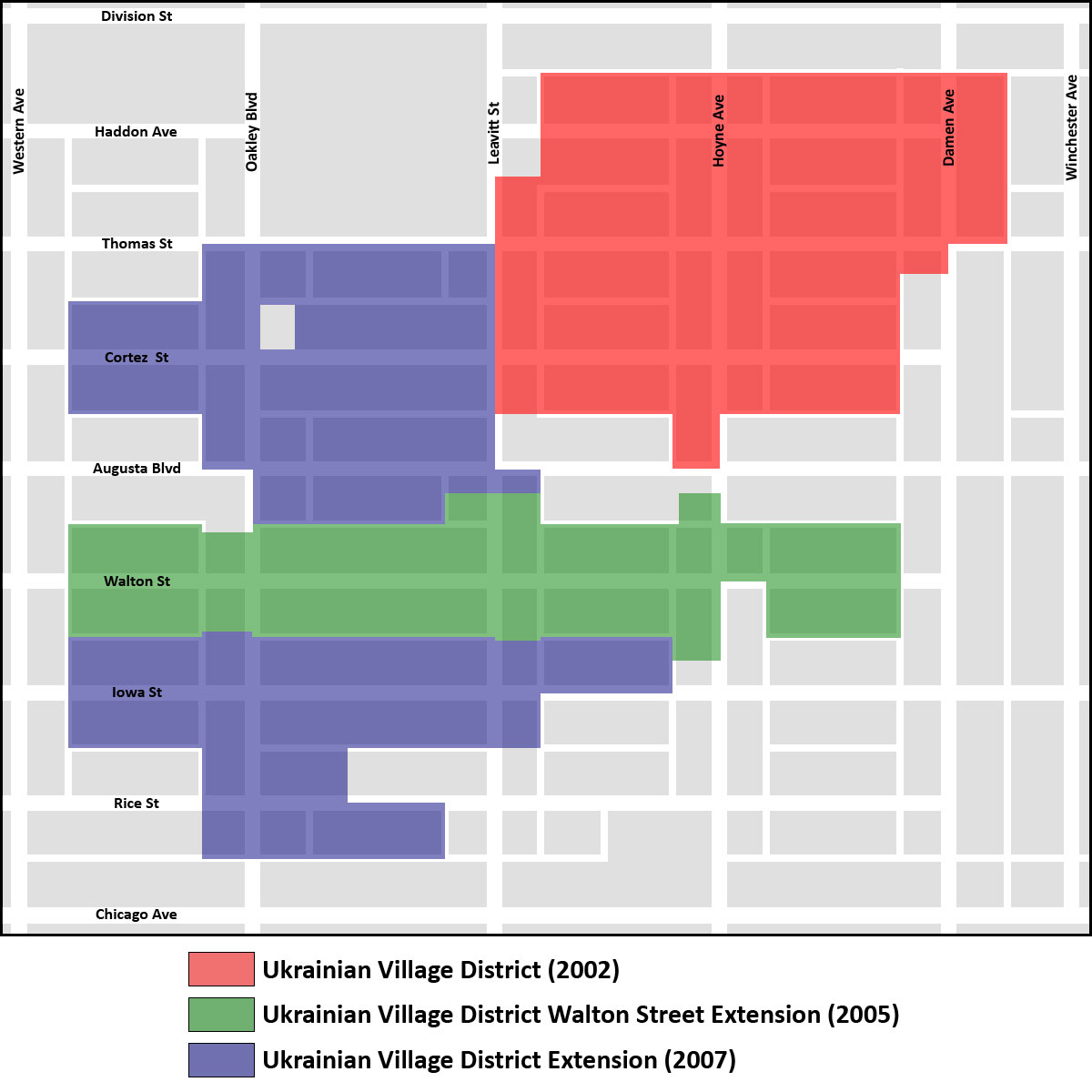 Map of the Ukrainian Village District of Chicago, Illinois, USA. Based on data contained in Landmark Designation Report: Ukrainian Village District Extension, City of Chicago Department of Planning and Development, 2006-07-12.